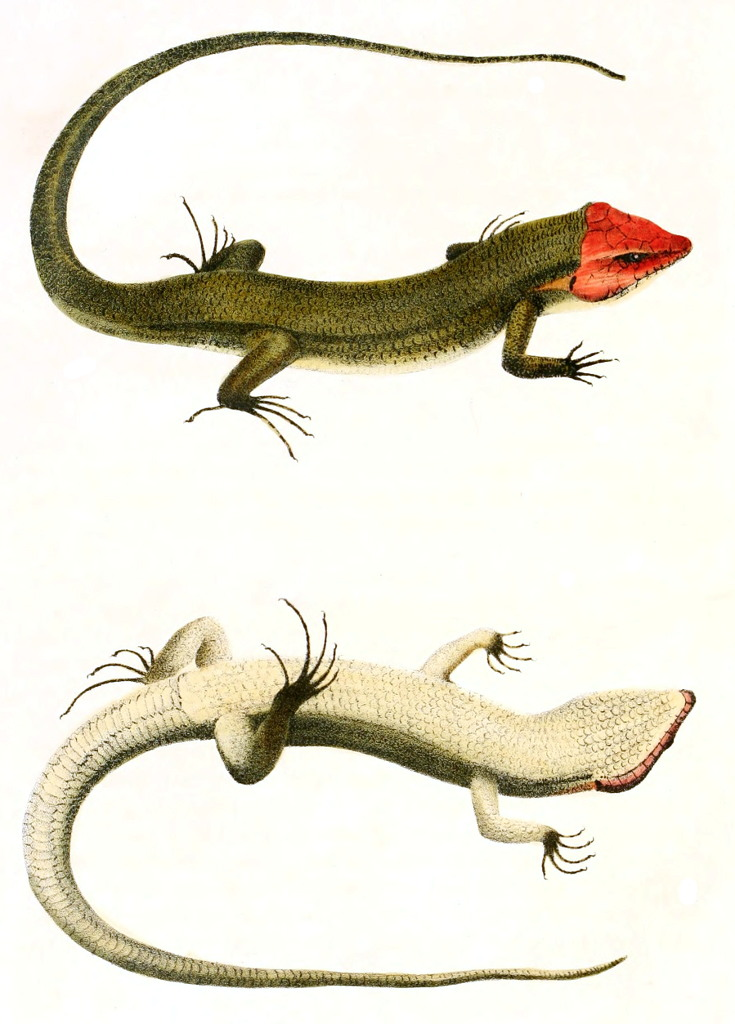 Broad-headed Skink (male) , Eumeces laticeps, hand-colored lithograph